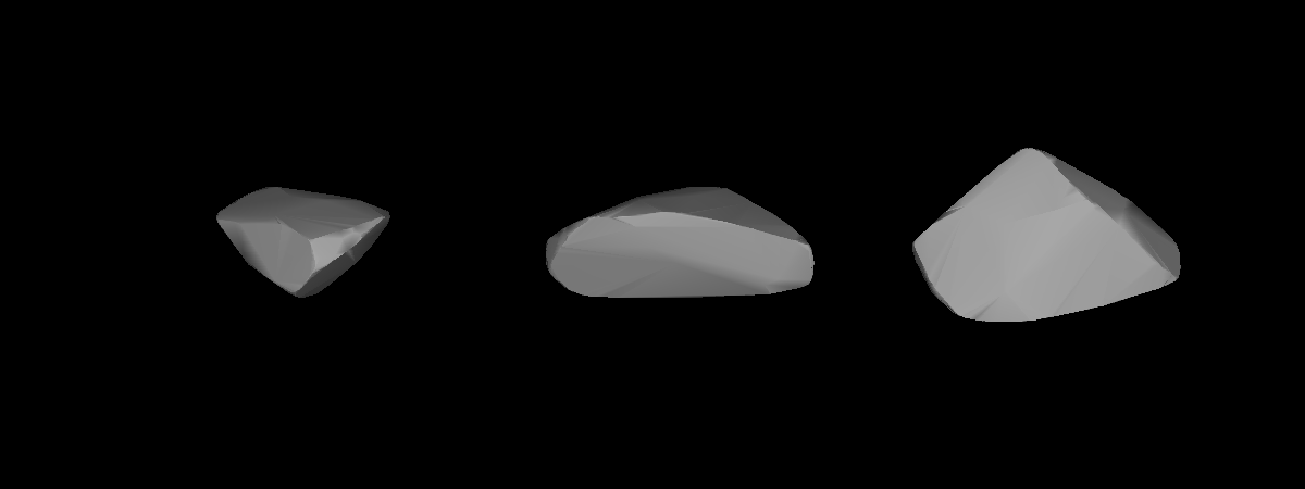 A three-dimensional model of 1503 Kuopio that was computed using light curve inversion techniques.